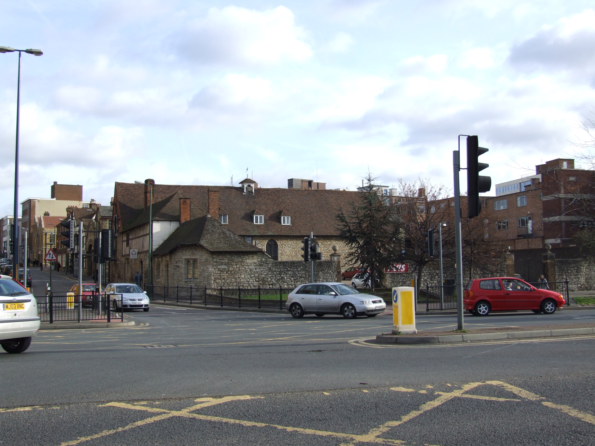 The River Medway flows through Maidstone in Kent. . Corpus Christi hall, a former trades guild hall confiscated in 1547 and used a grammar school until 1871. On Earl Street and Fairmeadow. - Google Maps - Google Earth